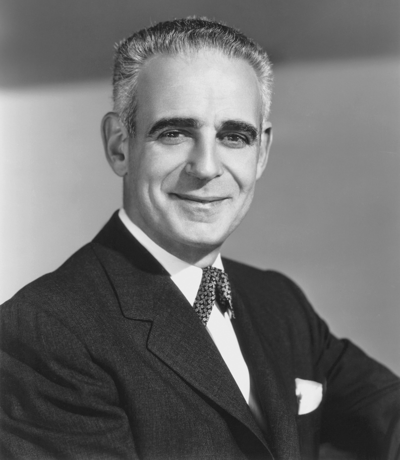 Actor Paul Stewart for The Cobweb